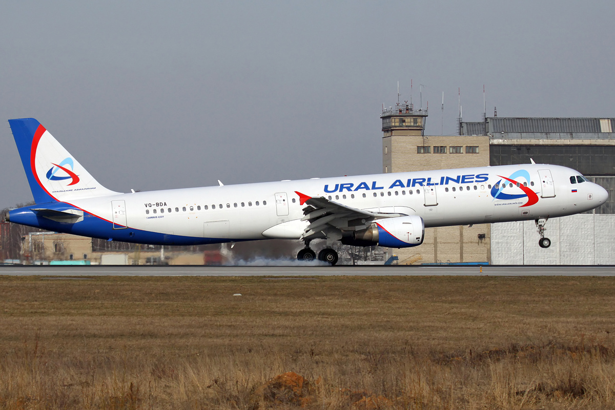 A Ural Airlines Airbus A321-211 lands at Domodedovo Airport (DME / UUDD)